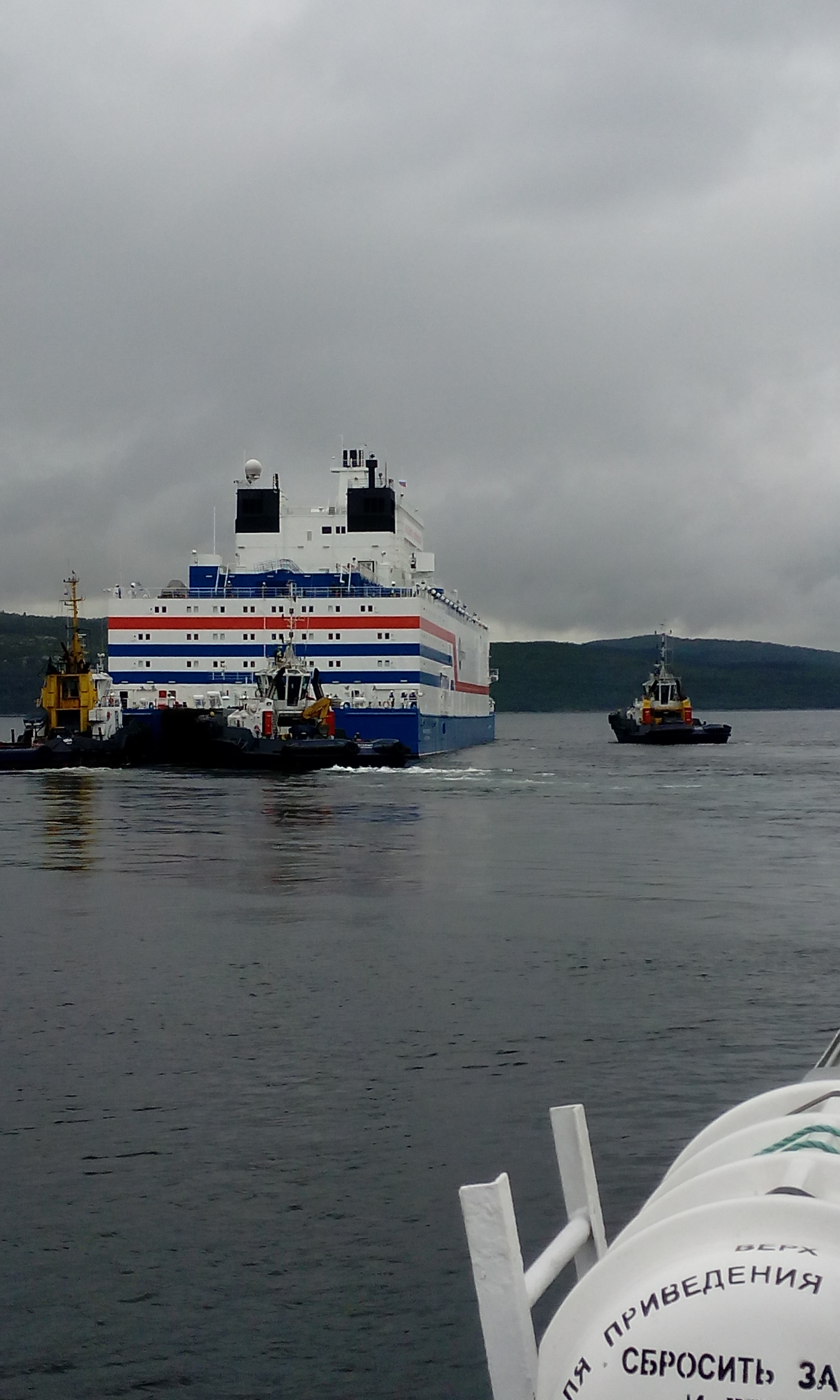 The first Russian floating nuclear power station being transported to a town of Pevek